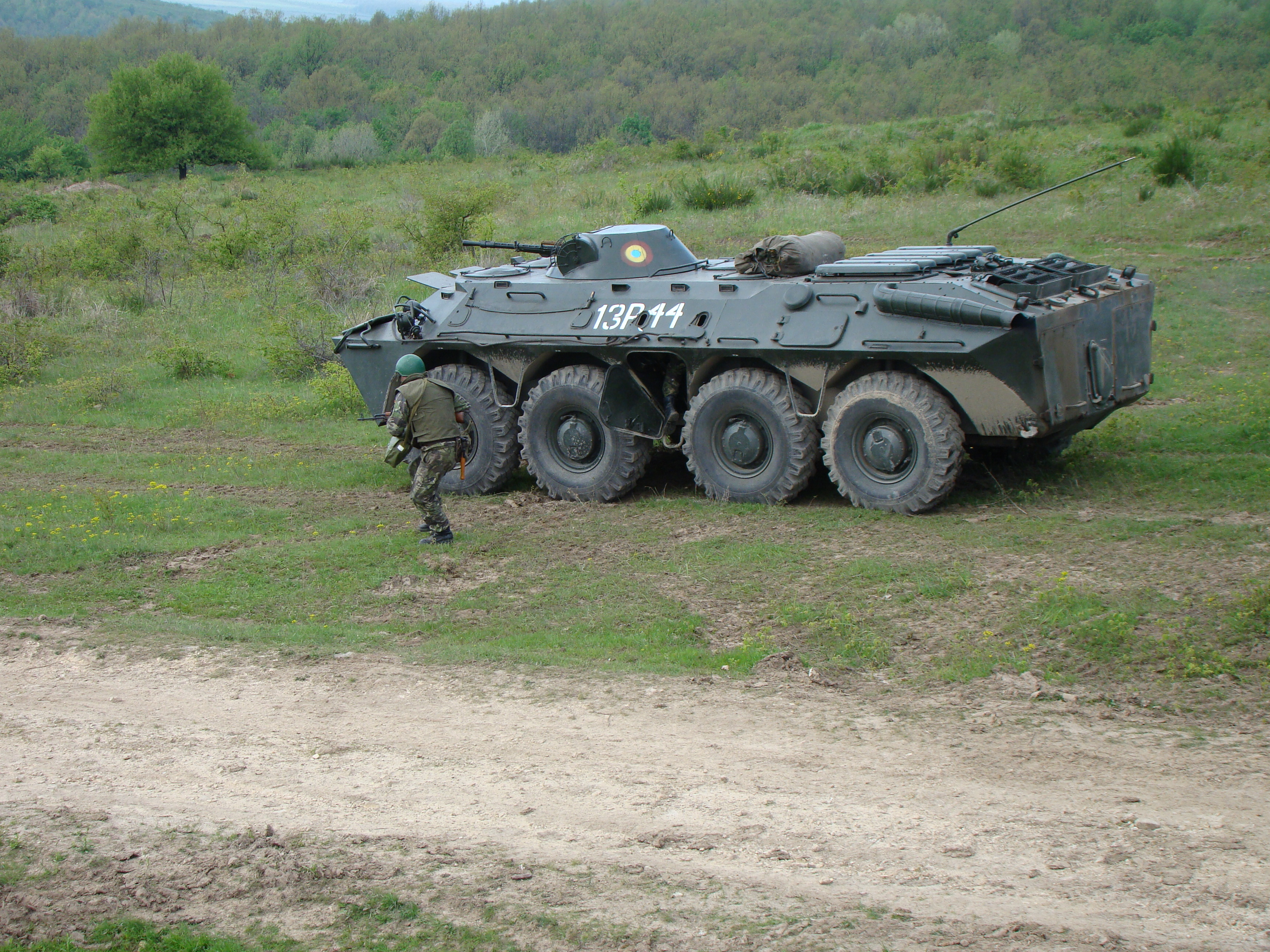 A Romanian TAB-77 during a military exercise of the 191st Infantry Battalion.